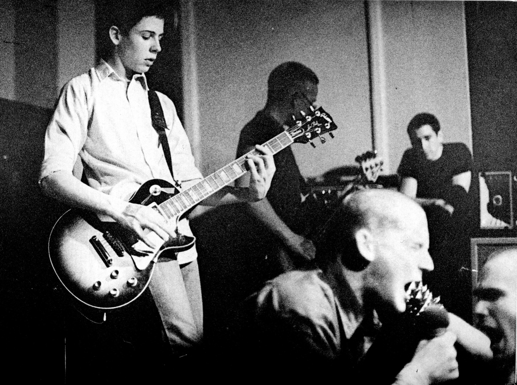 Minor Threat at The Wilson Center in Washington, D.C. 4/4/1981. Band members left to right: Lyle Preslar, Brian Baker, Ian MacKaye. Audience members: Mitch Parker in the background, Henry Rollins on the lower right.